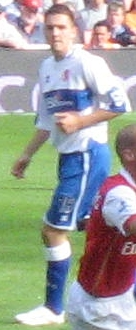 Stewart Downing